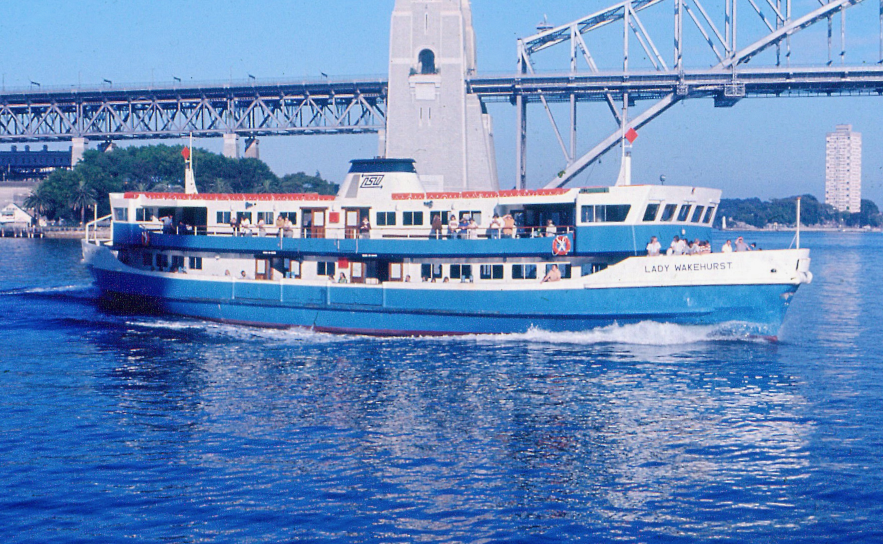 Sydney Ferry LADY WAKEHURST (built 1974) on the Circular Quay to Manly run 1975